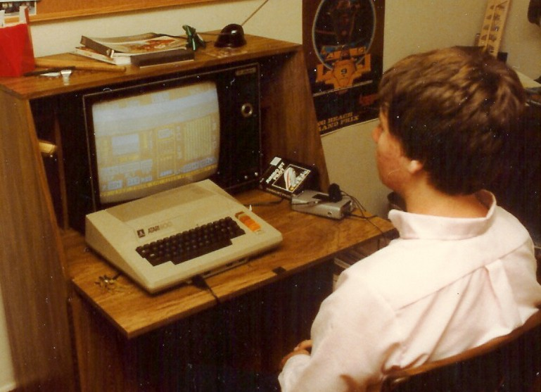 Time to upgrade to Windows Vista, but I really think I should add some RAM first.